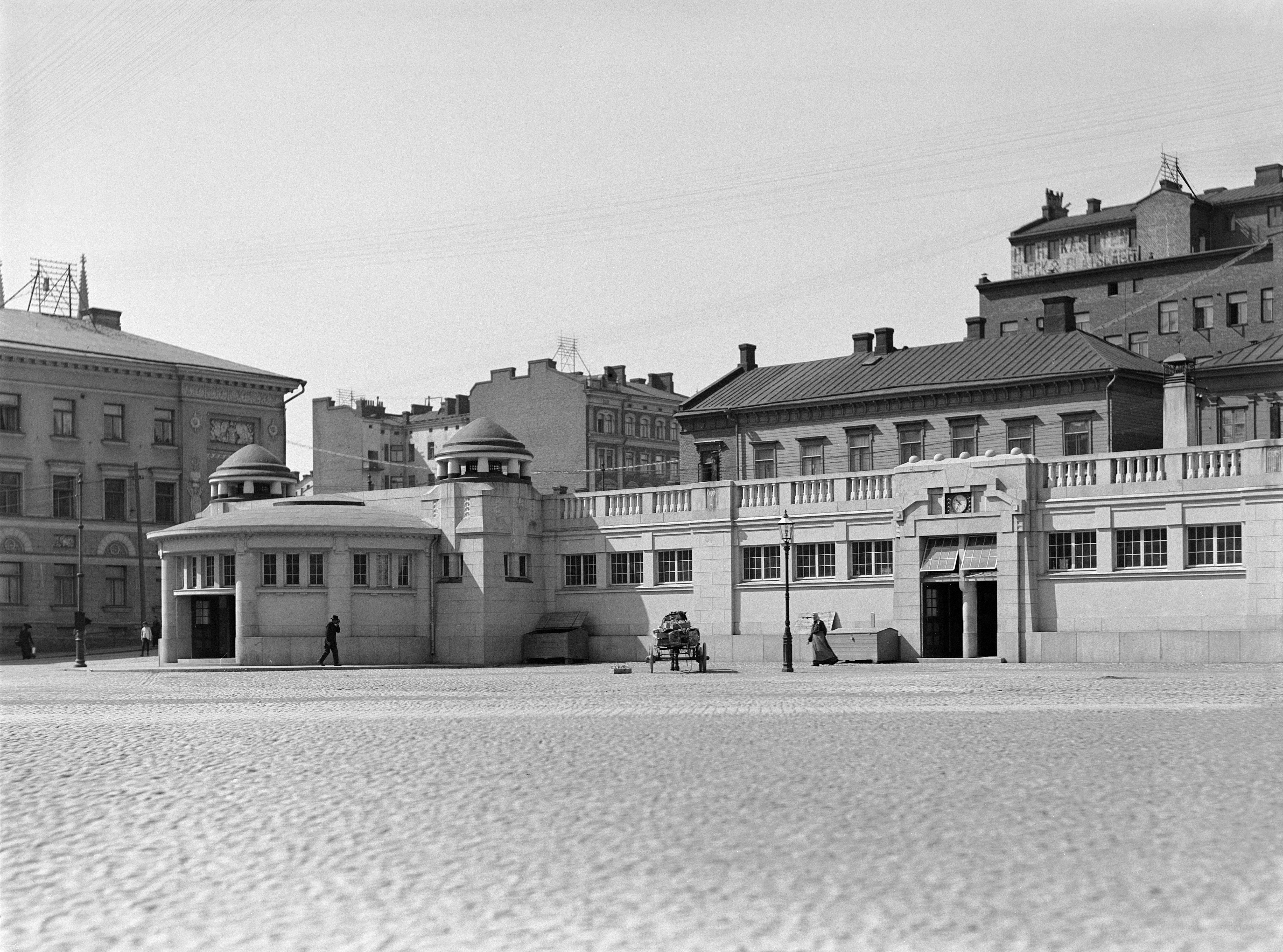 Kaartinhalli Market Hall by Kasarmitori Square in Helsinki, Finland.